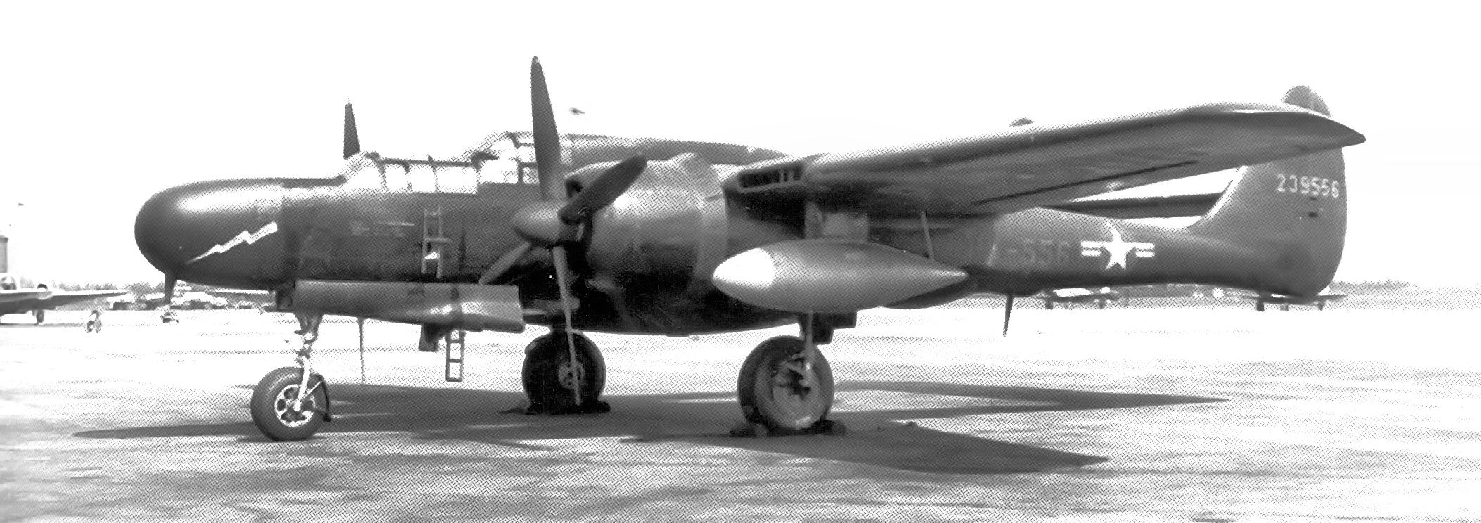 2d Fighter Squadron (All Weather) Northrop P-61B-10-NO Black Widow 42-39556 Mitchel AFB, NY January 1948 upon delivery from depot refurbishing at Tinker AFB, OK